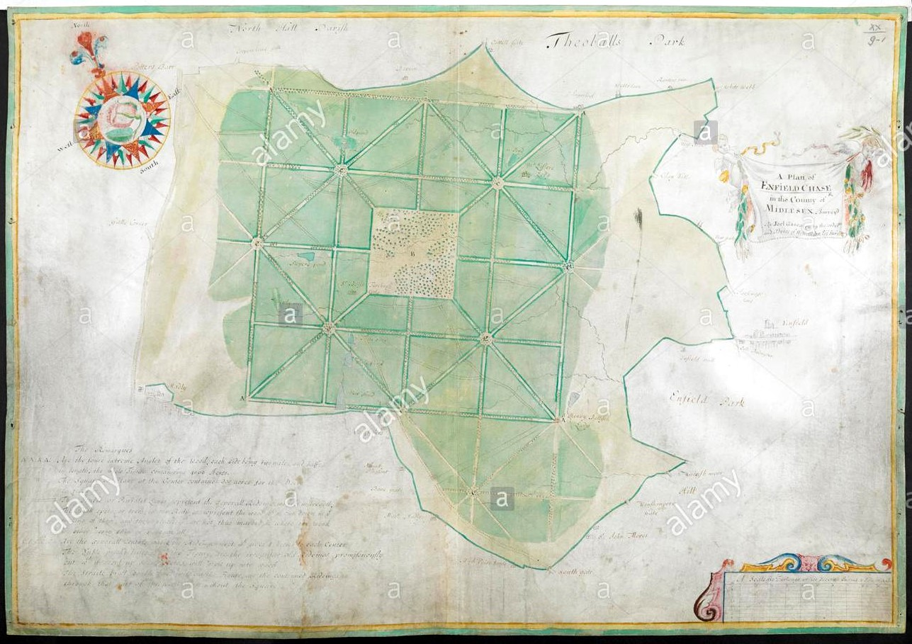 A plan of Enfield Chase. A Plan of Enfield Chase, in the County of Middlesex. Survey'd by Joel Gascoign, by the order and advice of H. Westlake. Esqr. Survr. A scale of 10 furlongs[ = 118 mm.] (Drawn on parchment). 1700. Source: Maps K.Top.20.9.(1.)